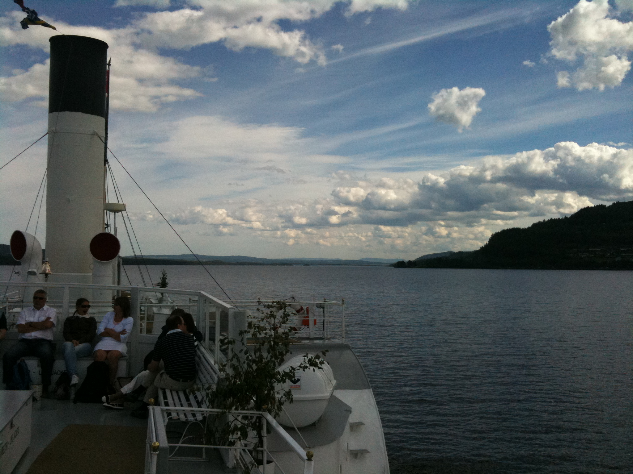 Sommeravslutning i Bibliotektjenesten 2010